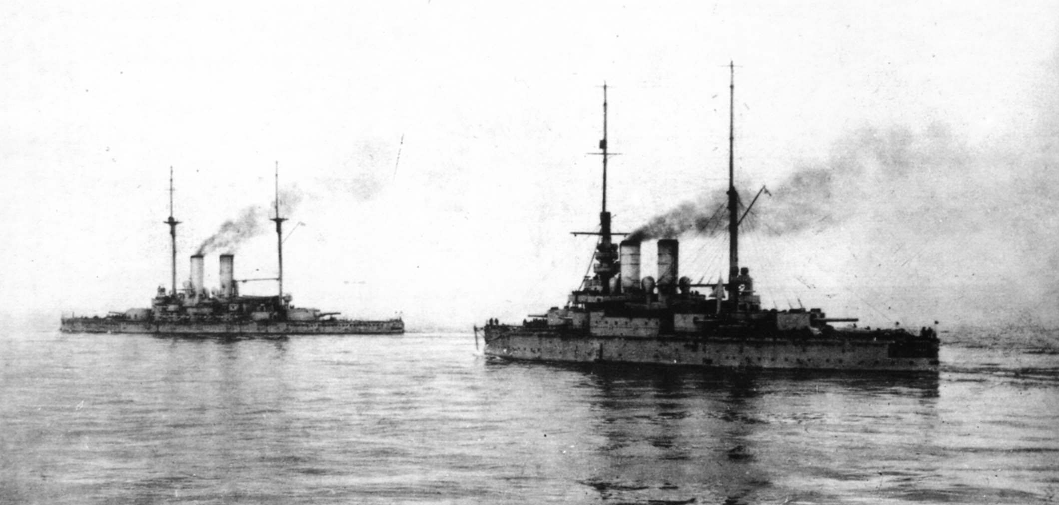 The Imperial Russian battleships Rostislav and Tri Svyatitelya.